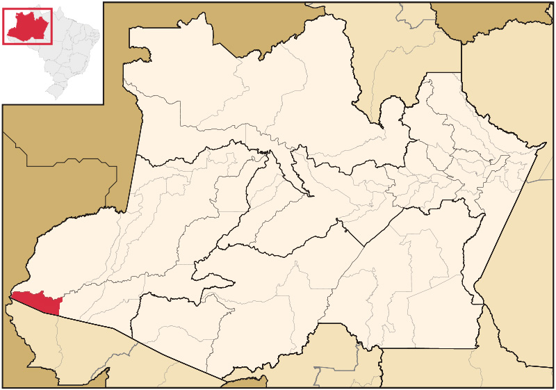 Map of Amazonas highlighting Guajará.